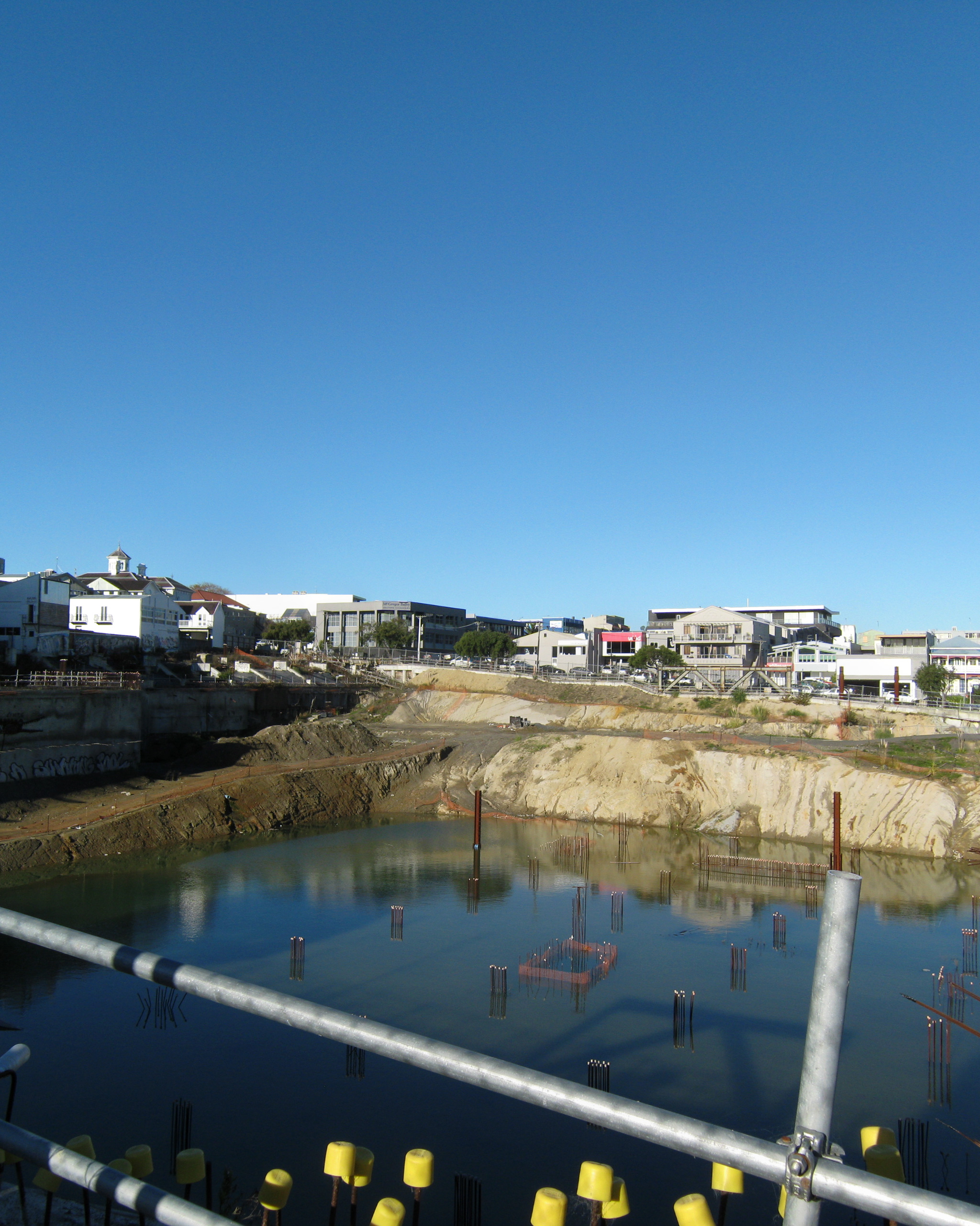 Picture of abandoned Soho Ponsonby construction site ("Sohole") filled with rain water.